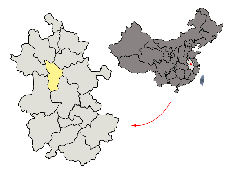 Location of Huainan Prefecture (yellow) within Anhui Province of China Map drawn in december 2007 using various sources, mainly : Anhui Province administrative regions GIS data: 1:1M, County level, 1990 Anhui Counties map from